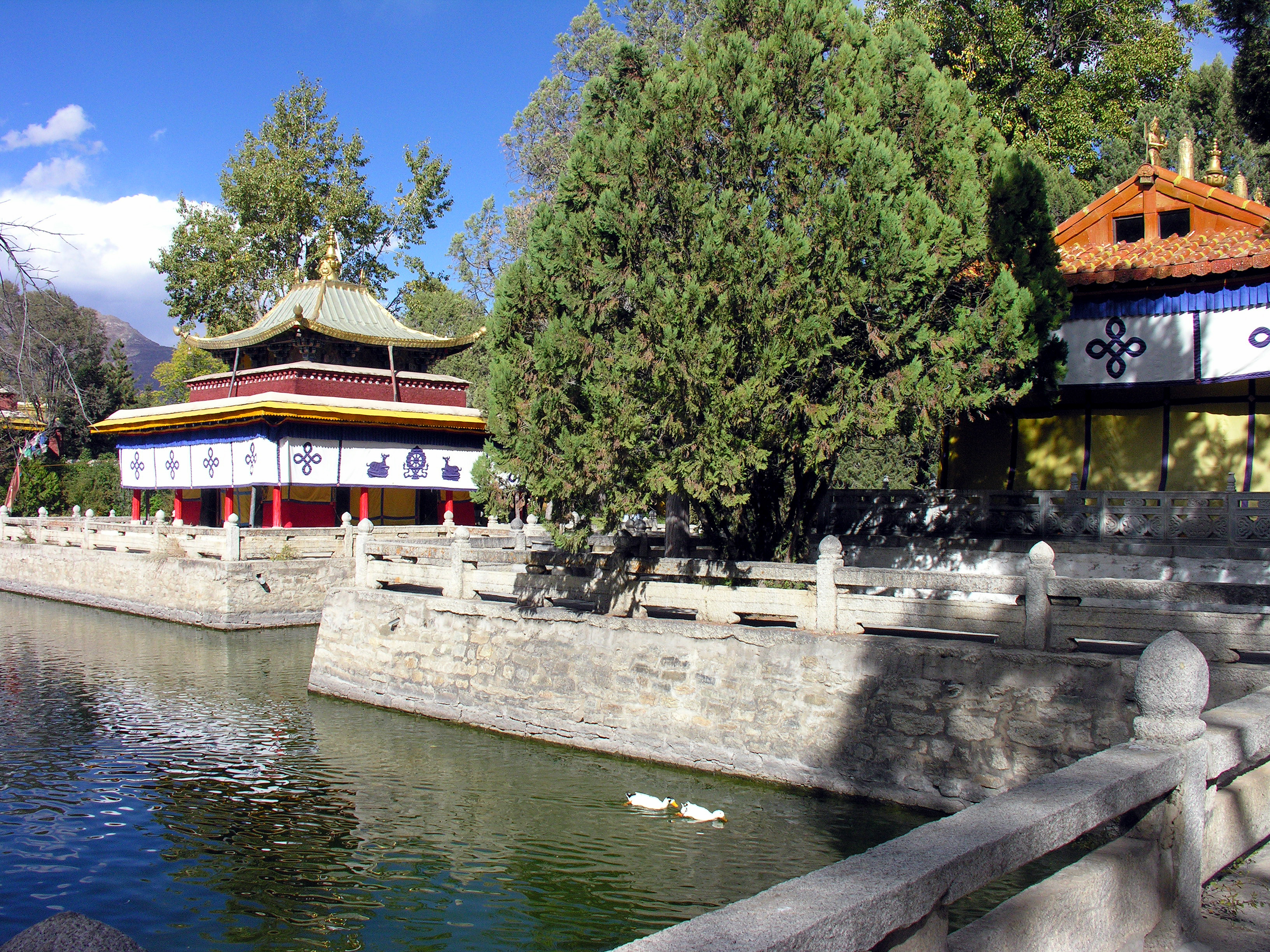 Norbu Lingka means "treasure garden" in Tibetan. It used to be covered by marshland. Summer Palace, Lhasa, Tibet